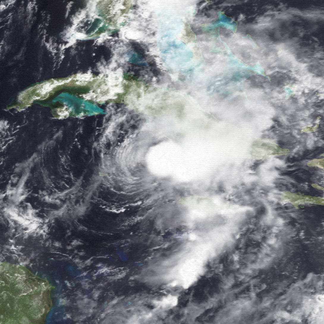 Tropical Storm Arlene at peak intensity near landfall in Cuba on May 7, 1981